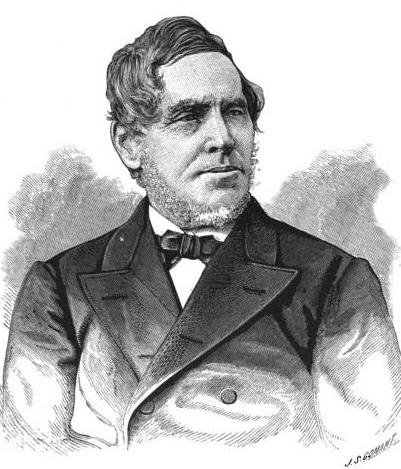 Engraving of American author and minister Samuel Francis Smith, from his book on the history of Newton, Massachusetts. Published in Boston: The American Logotype Company, 1880.